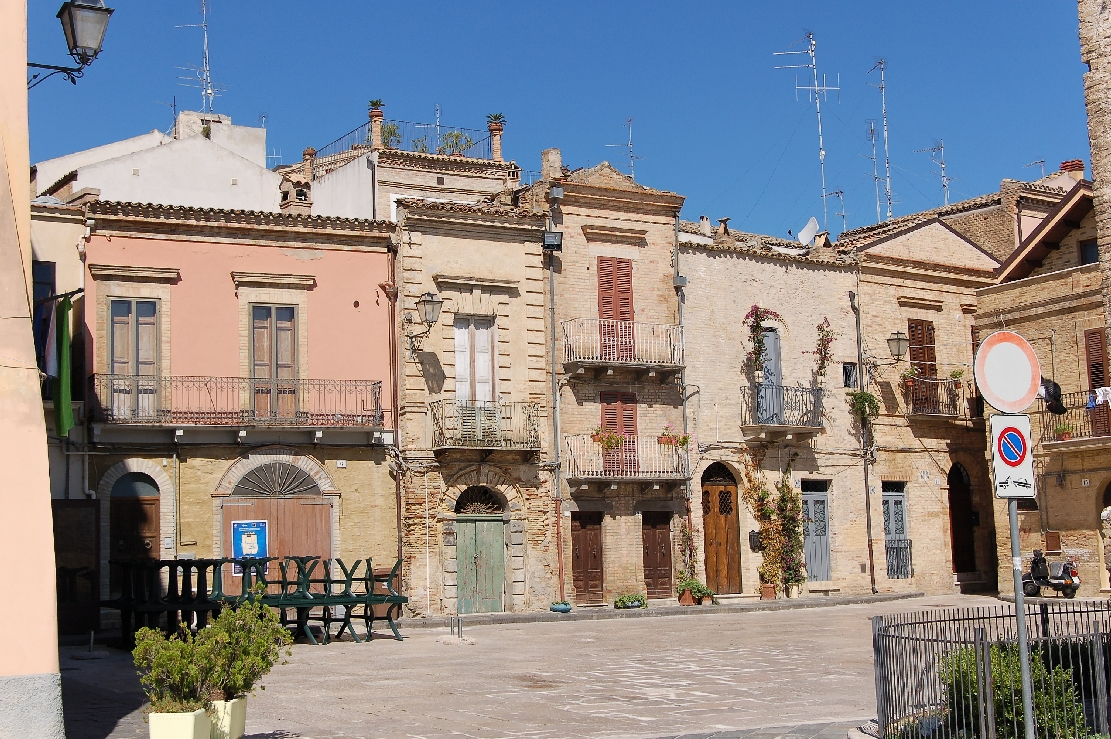 Vasto 2011